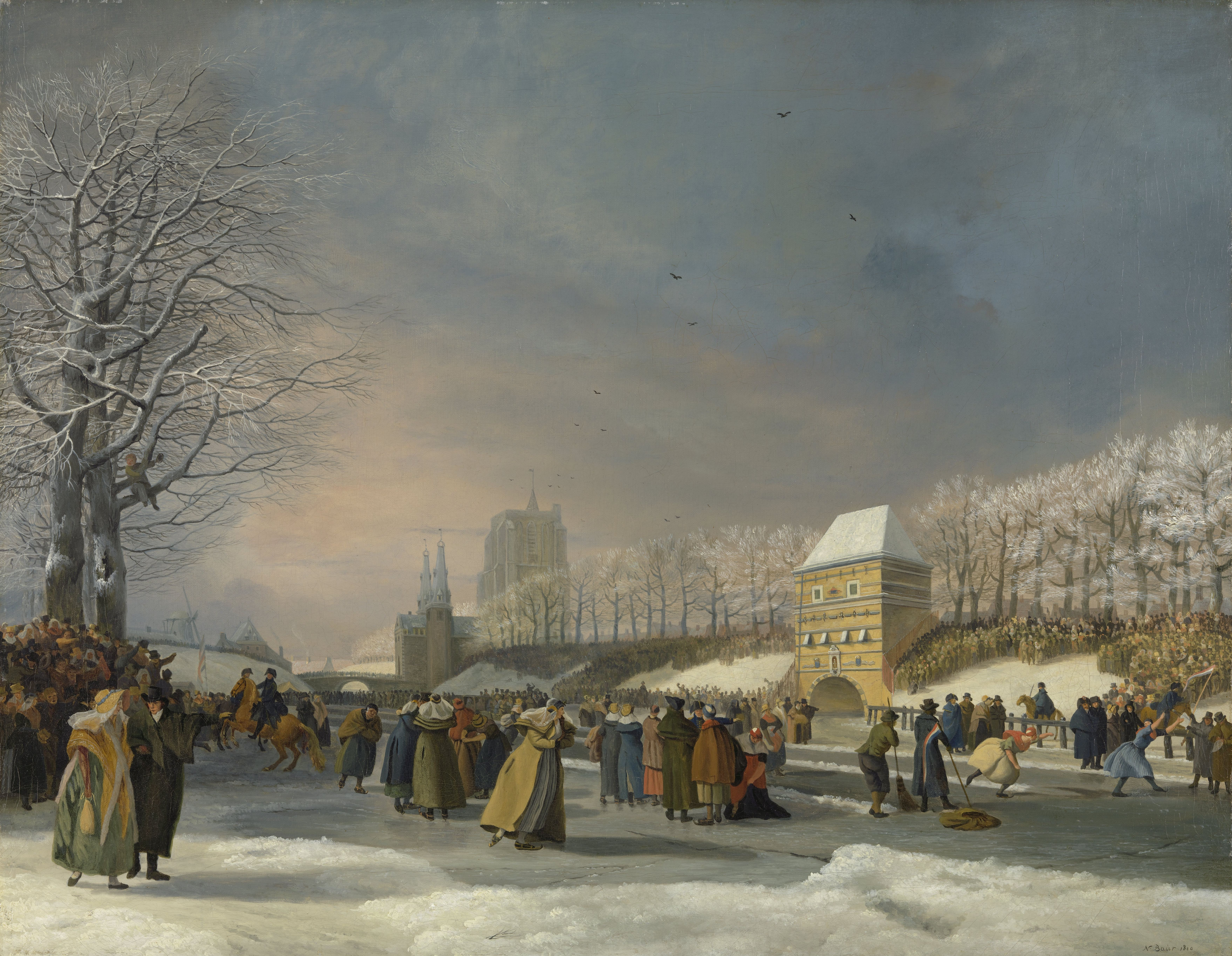 At a women’s skating race in Leeuwarden in 1809, the crowd watched sixty-four unmarried women vie for a gold cap-brooch. The winner was Houkje Gerrits Bouma. For greater ease, many had thrown off their cloaks. Baur painted the finalists with bare arms, a jettisoned cloak on the ice. It left little to men’s imagination and caused an outcry; therefore it was the last women’s race for many years.